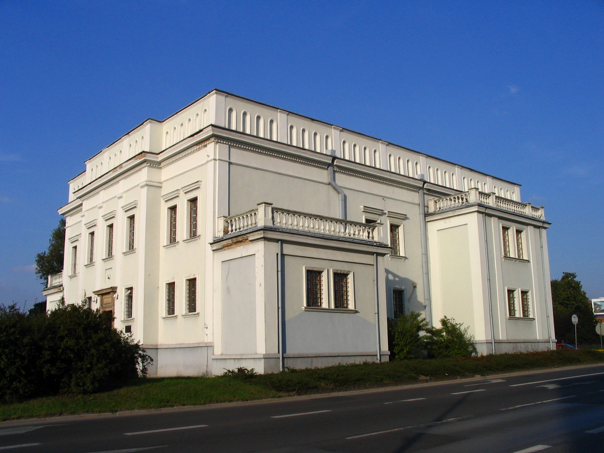 Former jewish synagogue, now State Archive.